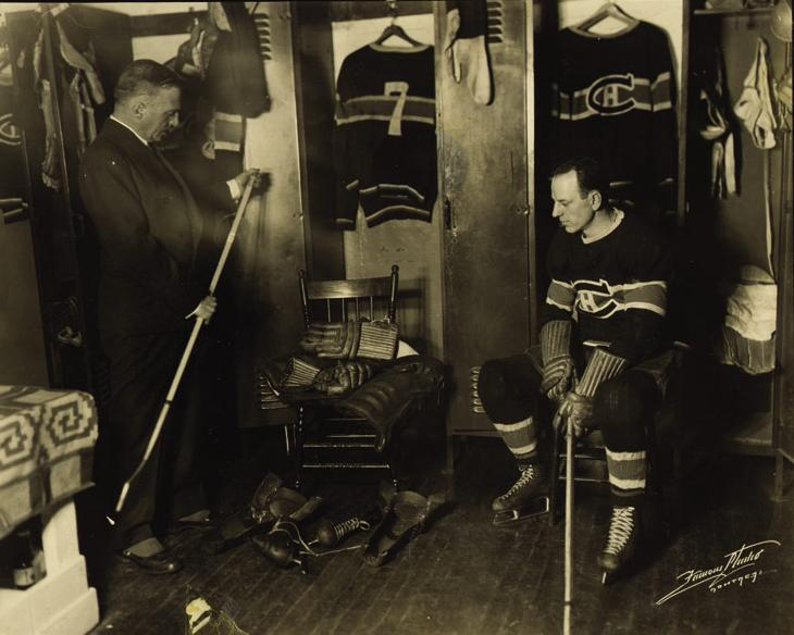 Montreal Canadiens' manager Cecil Hart and player Aurele Joliat at Howie Morenz's dressing room stall after learning of Morenz' death.